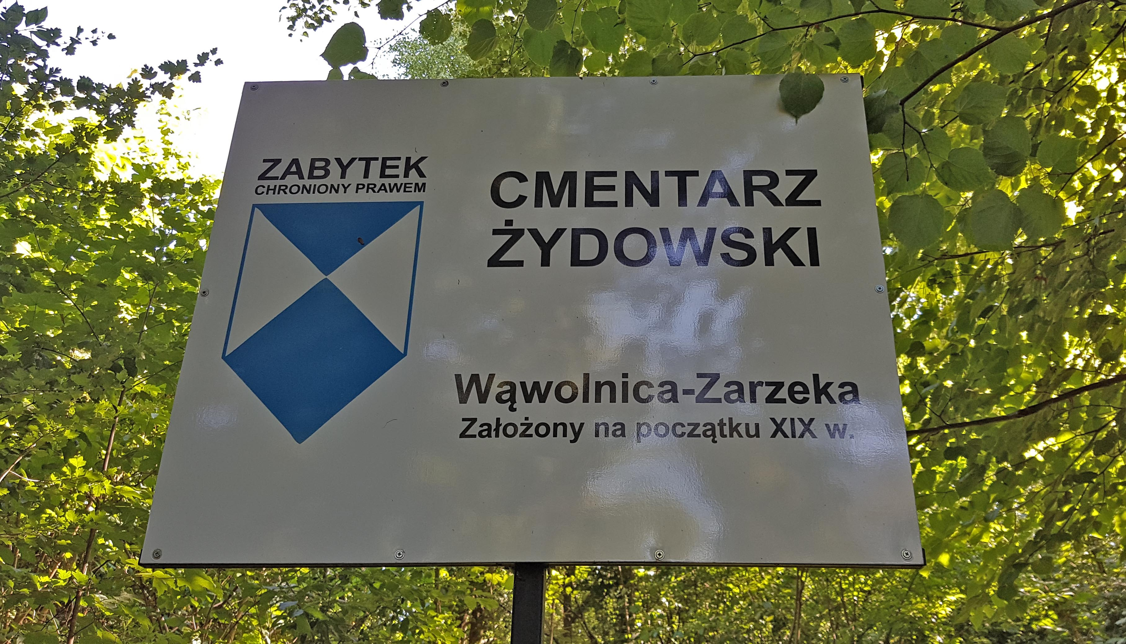 Sign at the Jewish cemetery in Wawolnica, Poland, June 2018